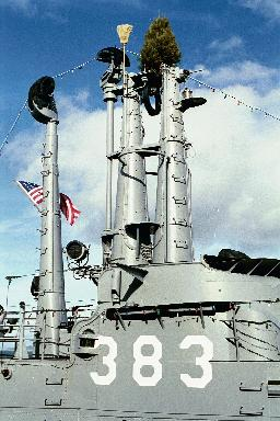 Sail and masts of USS Pampanito, photographed by the Epopt's wife. Photograph later edited by mav.